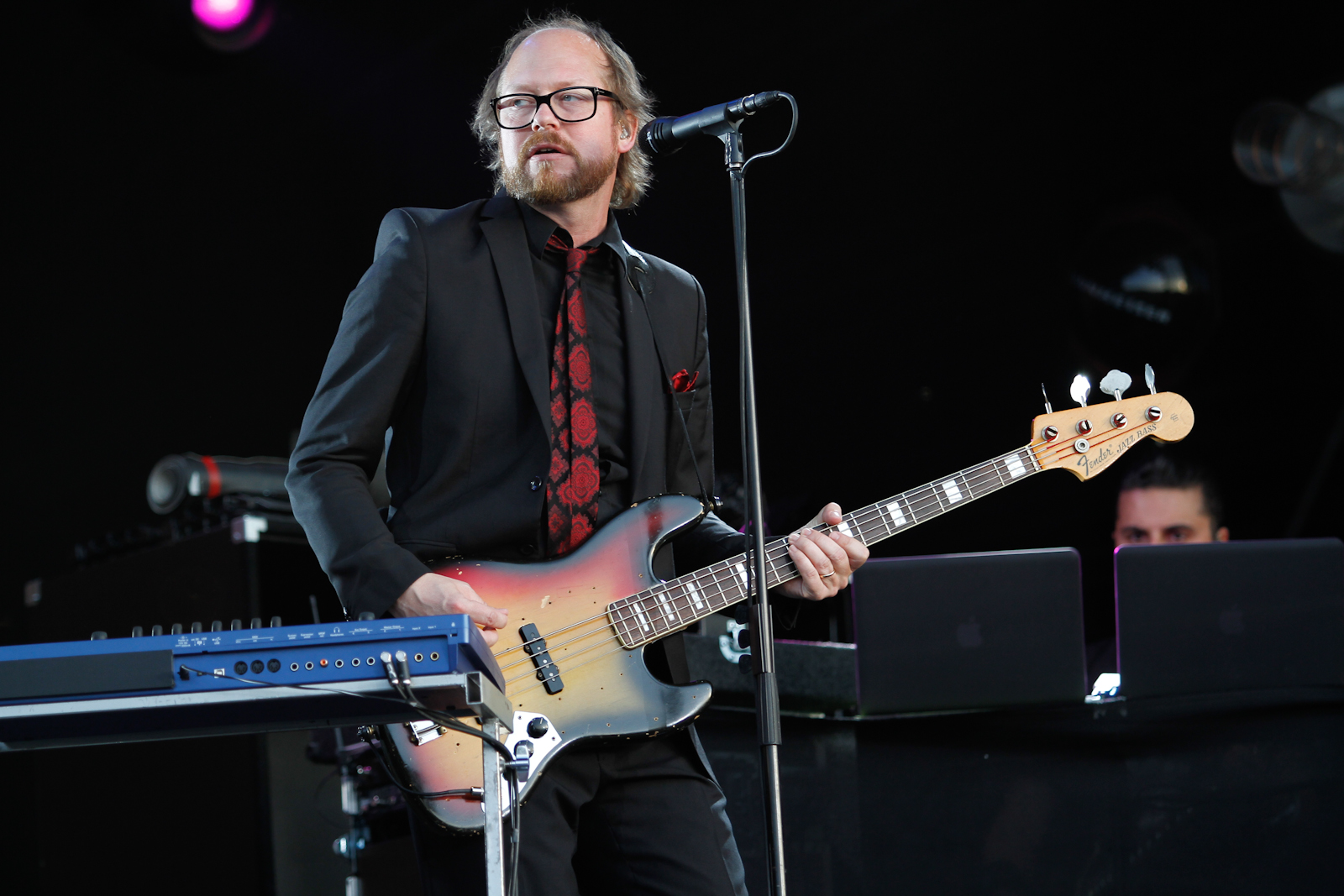 Magnus Börjeson performing live on stage.